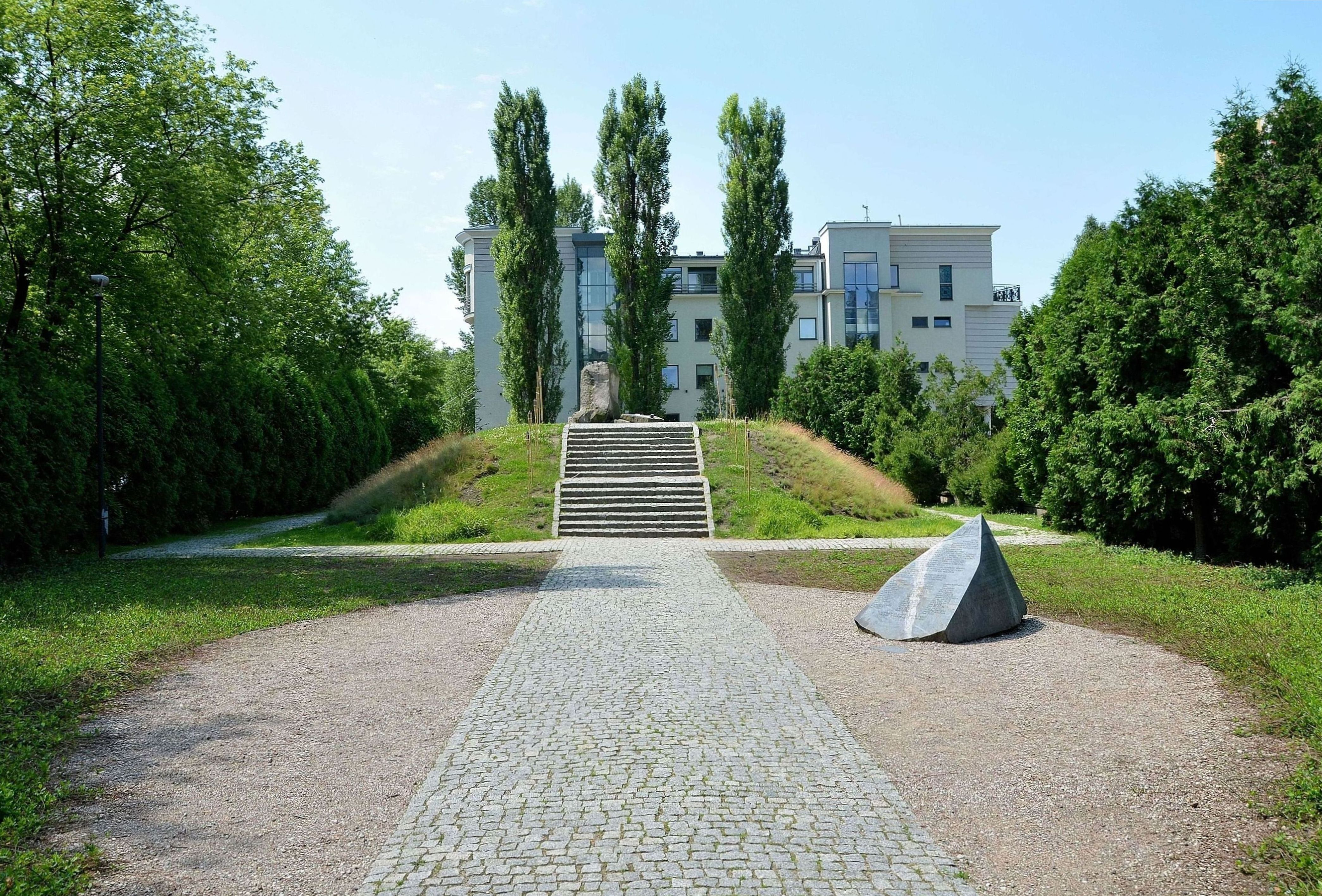 Mila 18 Memorial (Anielewicz Mound) in Warsaw